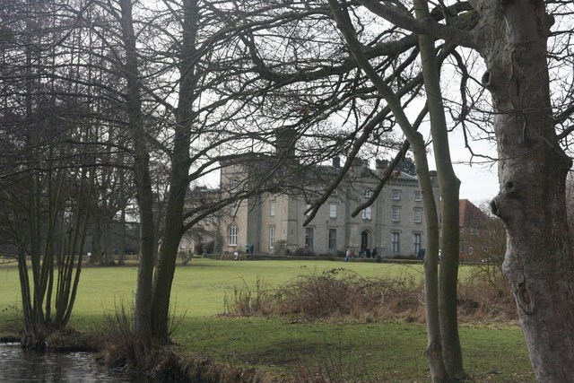 Chiddingstone Castle The ancestral home of the Streatfield family.